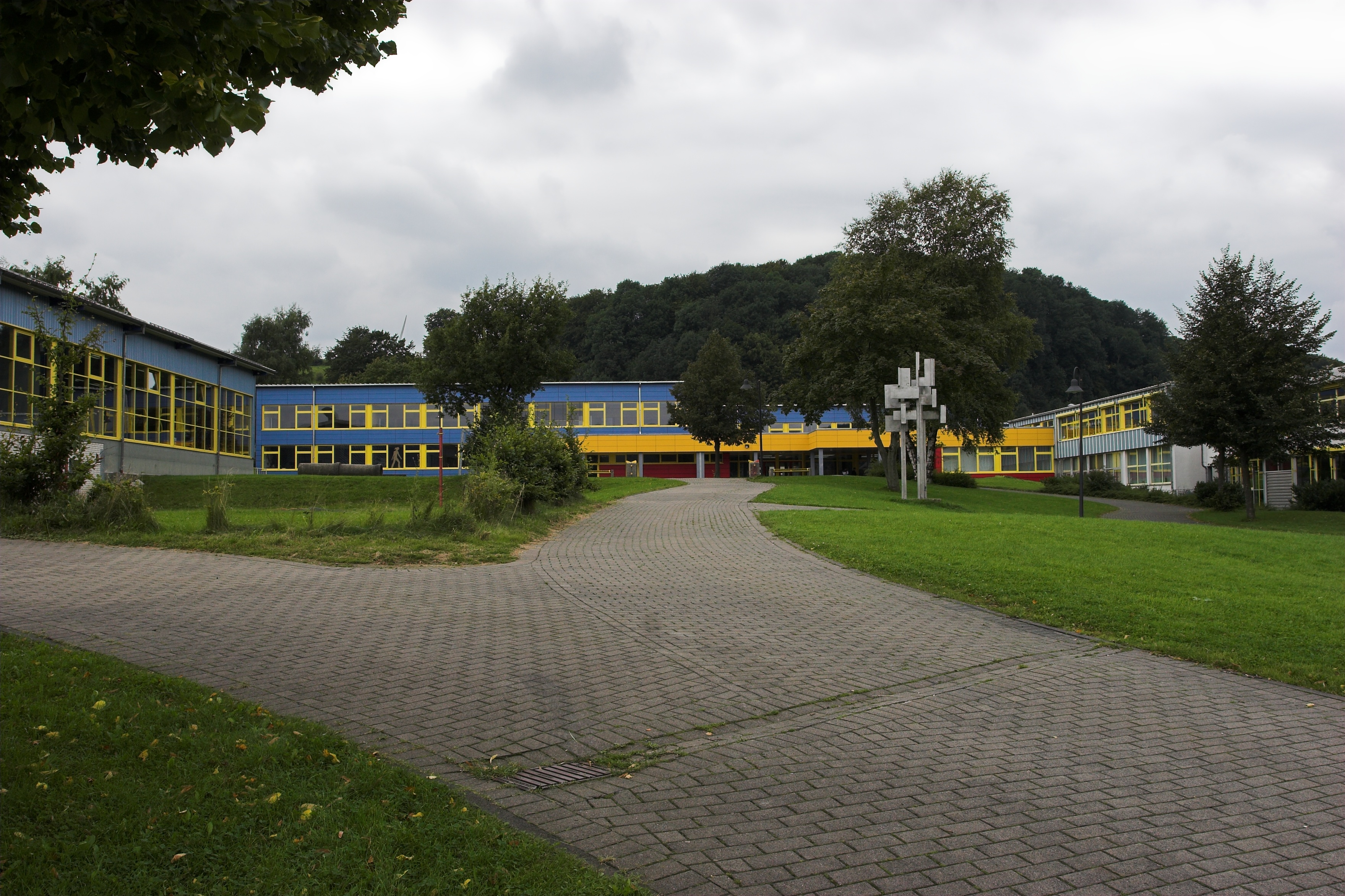 public school of Altenbeken